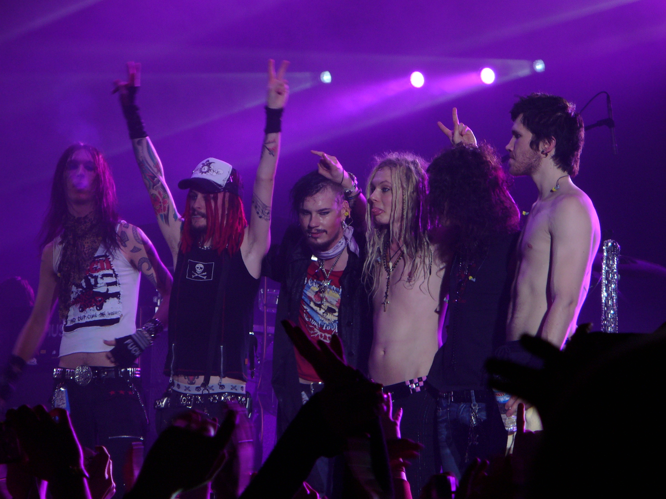 Negative in Hannover after the show